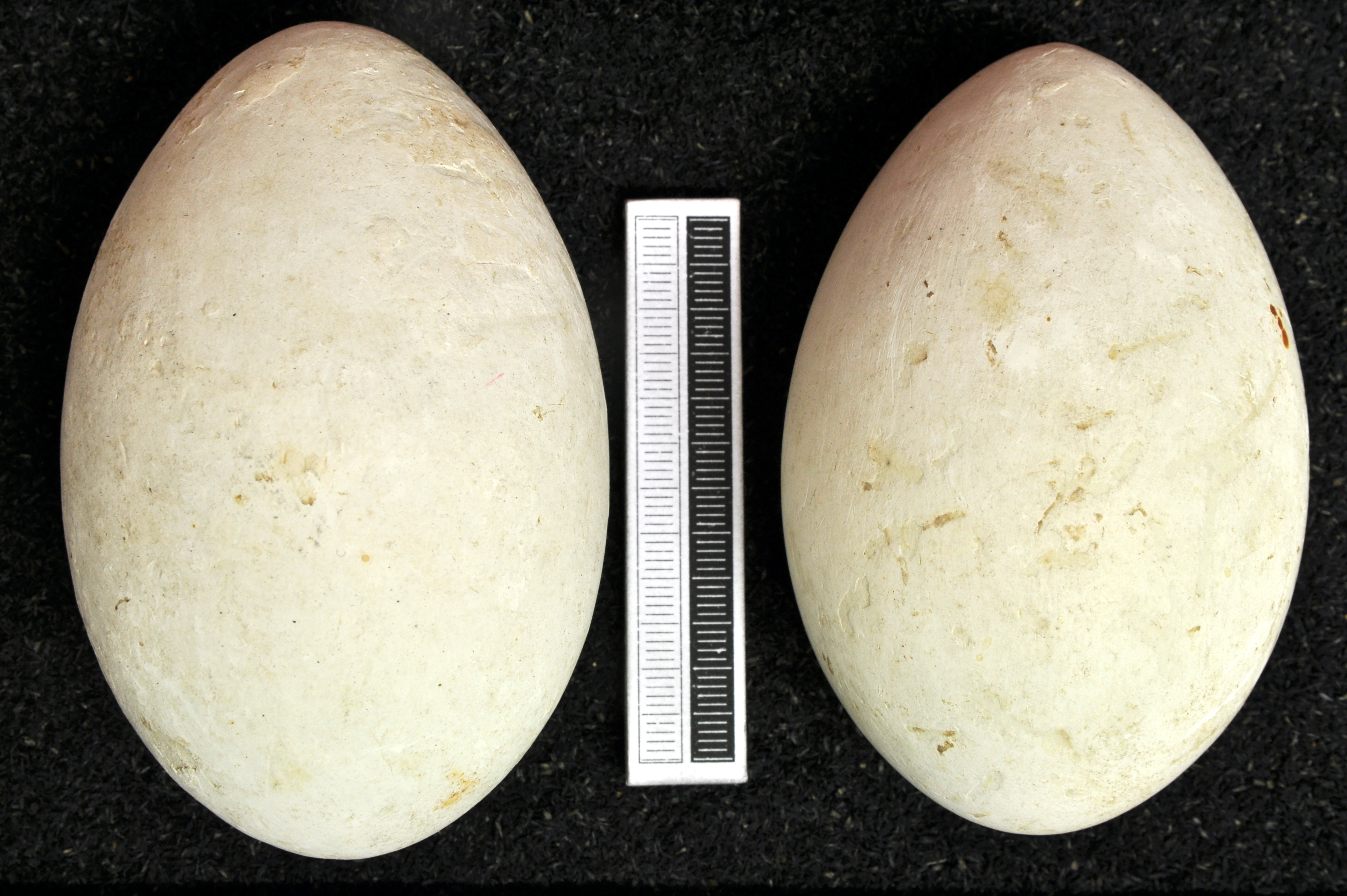 Greater flamingo Phoenicopterus roseus , egg, Coll. Museum Wiesbaden